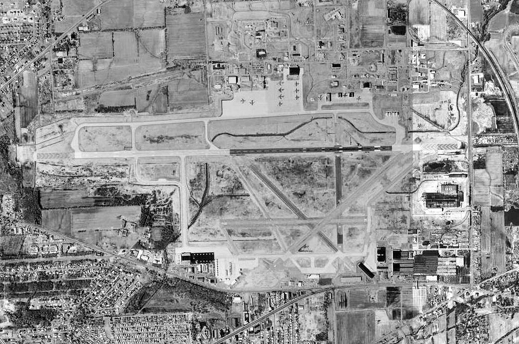 USGS digital orthophoto of Niagara Falls International Airport in New York